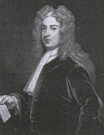 picture of british polititian of 18th C. William Pulteney